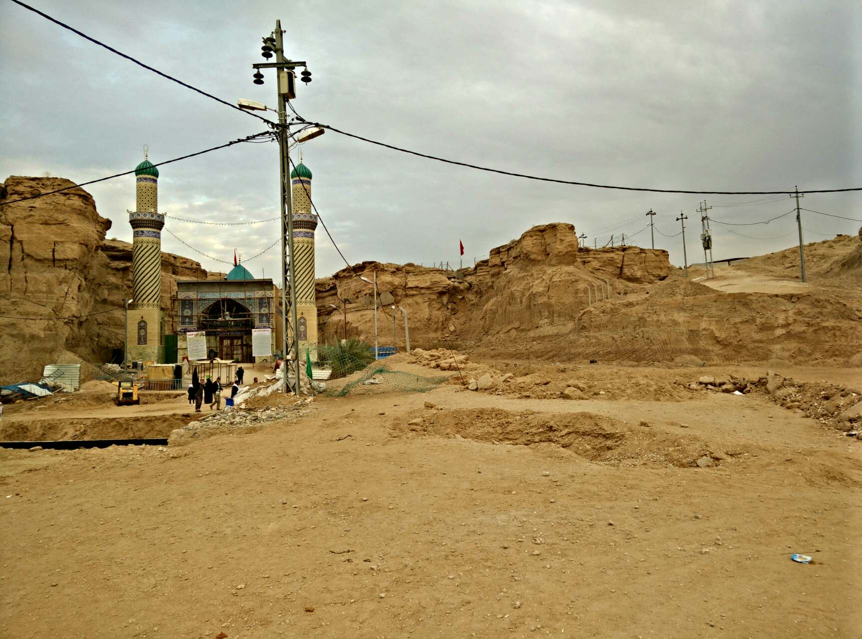 memorial shrine to what believed a spring of water had been exist in the desert according to Imam Ali (AS) pray الشجرة التين والأغنام